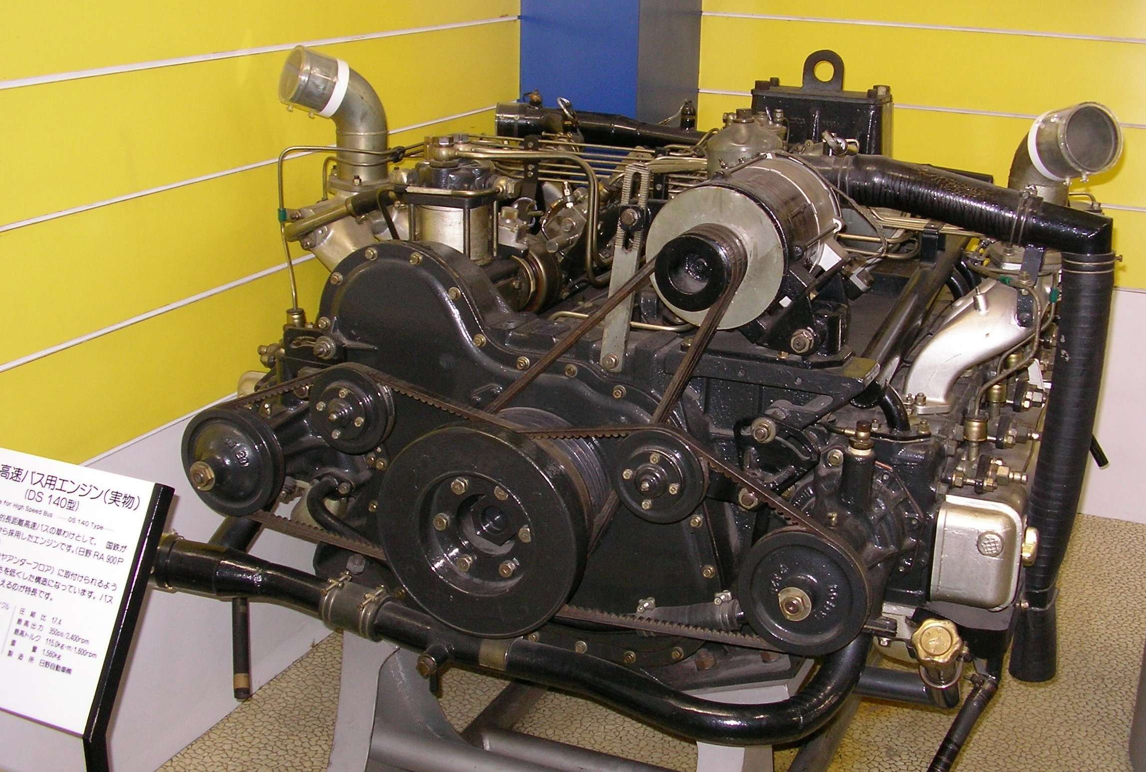 1969 Hino Motors boxer diesel engine from DS140 at Japanese Transportation Museum in Chiyoda-ku Tokyo